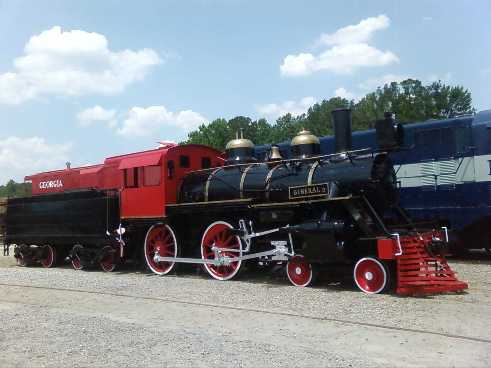 The General II, currently at the Southeastern Railway Museum, Duluth, GA.